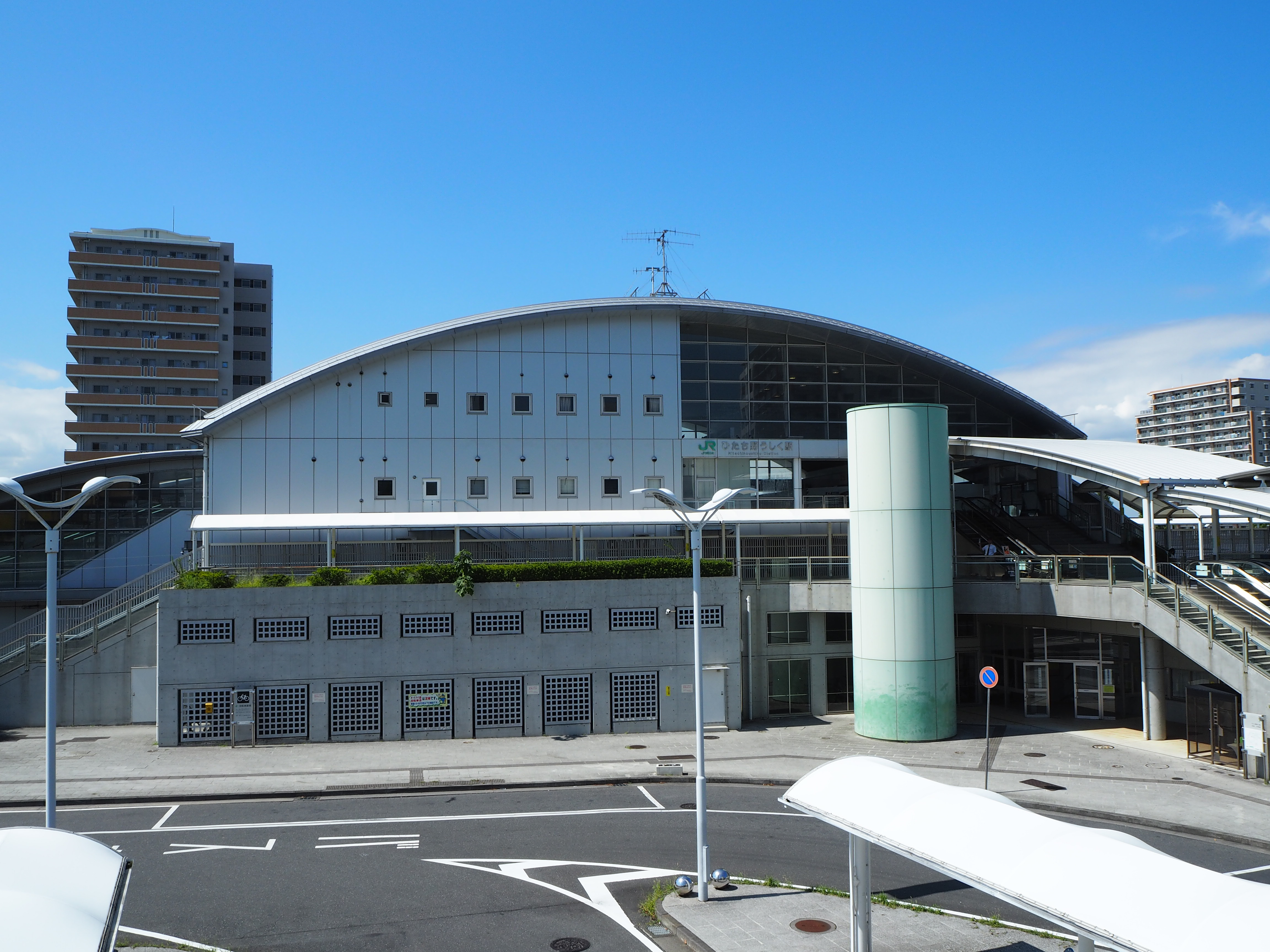 East entrance of Hitachino-Ushiku Station